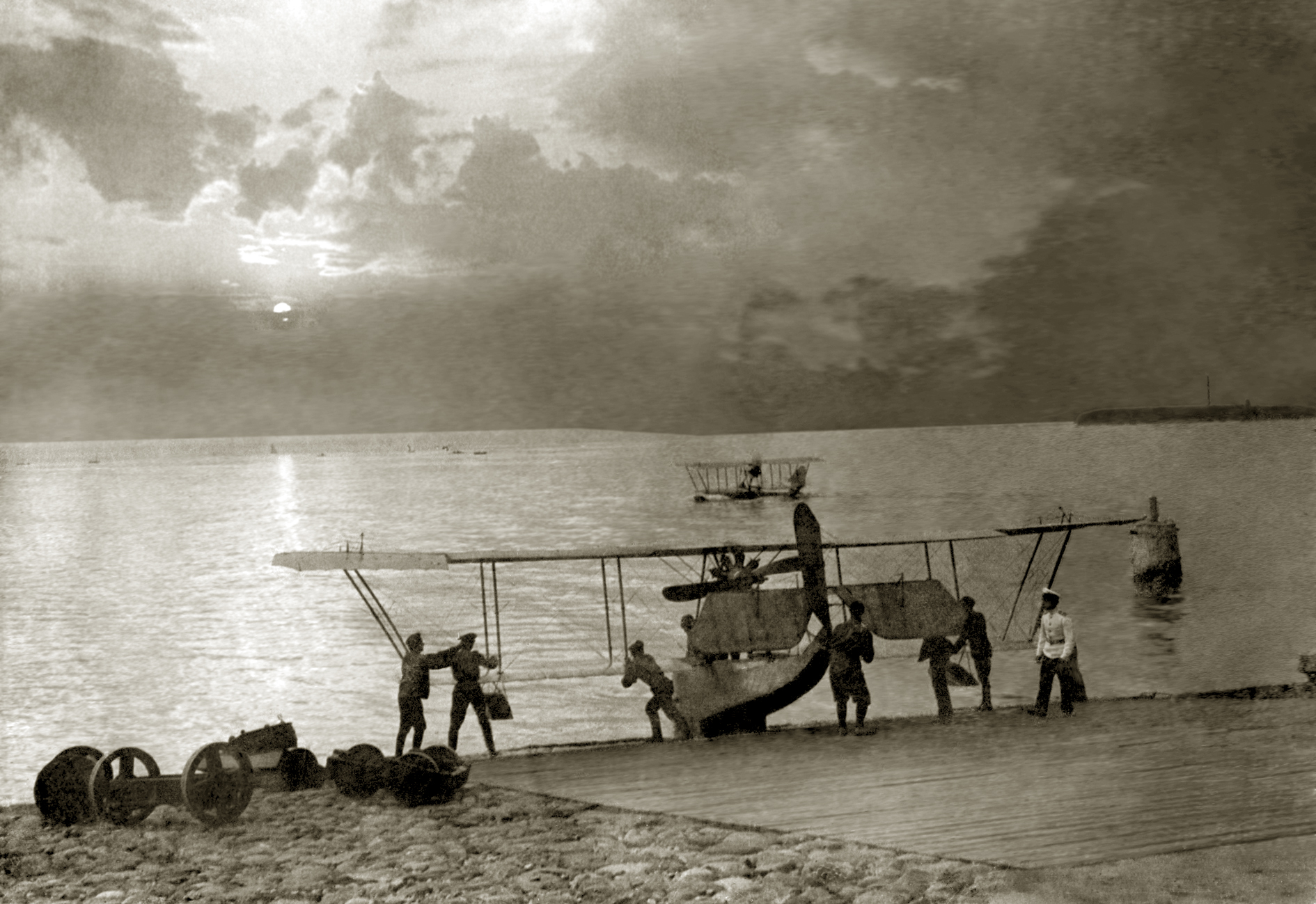 M-5 of Grigorovich D. P. Naval Aviation Officer's School in Baku.